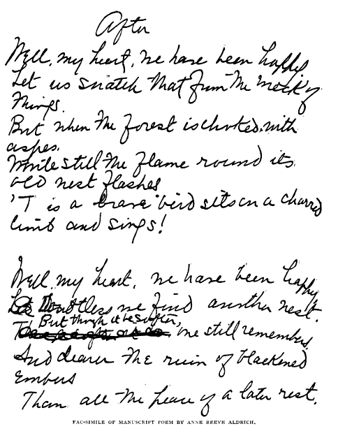 Facsimile of a poem by Anne Reeve Aldrich. From The Book Buyer.